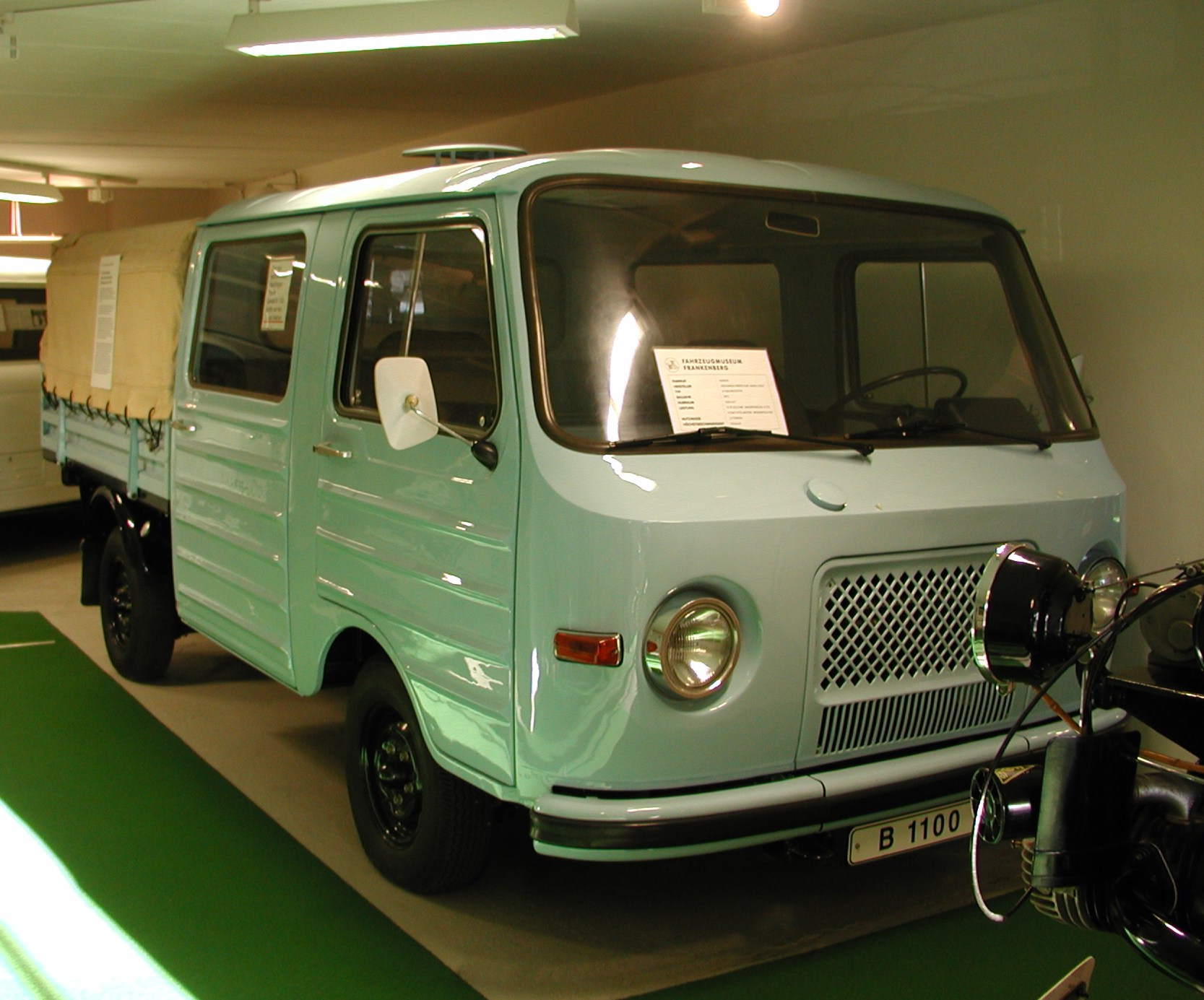 Barkas B1100 concept model